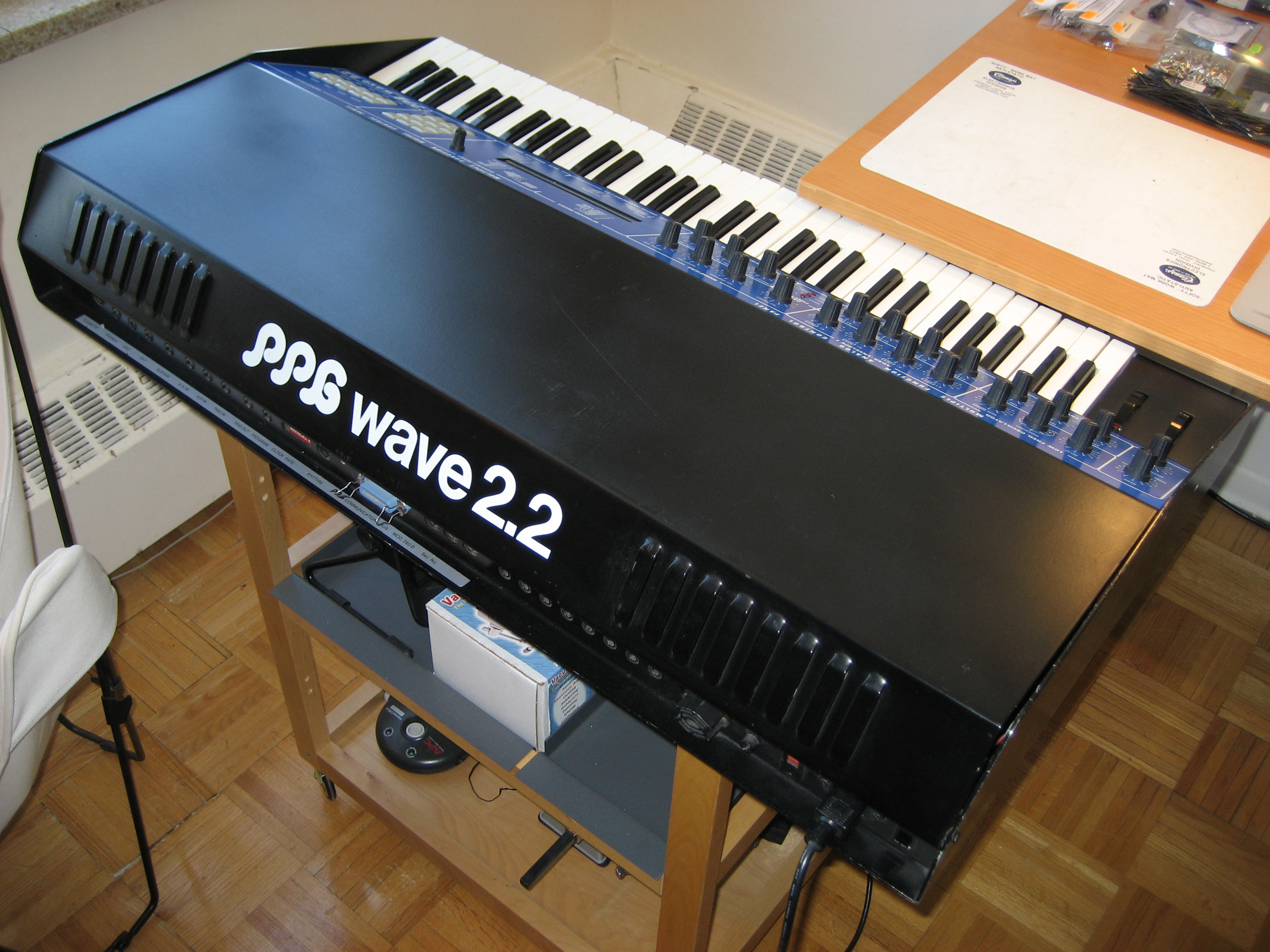 rear external view of the PPG Wave 2.2 PPG WAVE 2.2 (rear) uploaded using Flickr upload bot from krunkwerke@Flickr